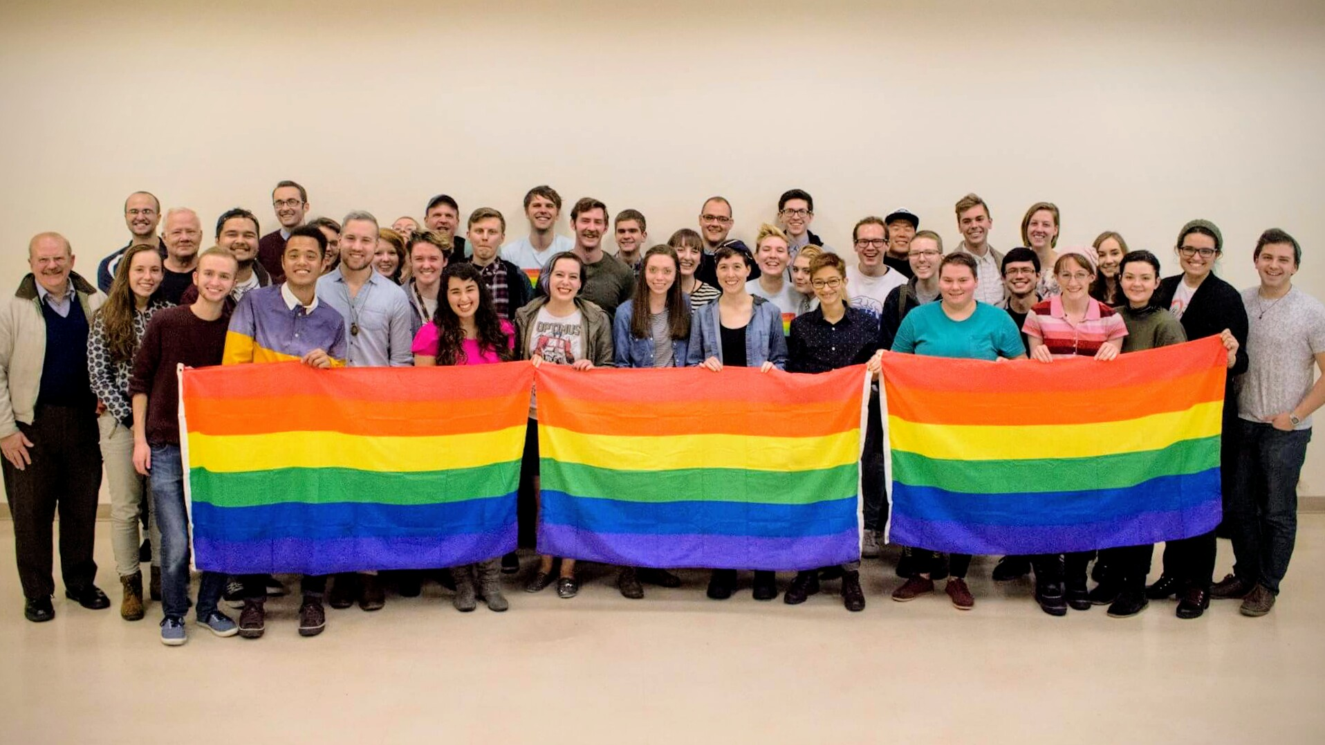 BYU's unofficial LGBTQ group